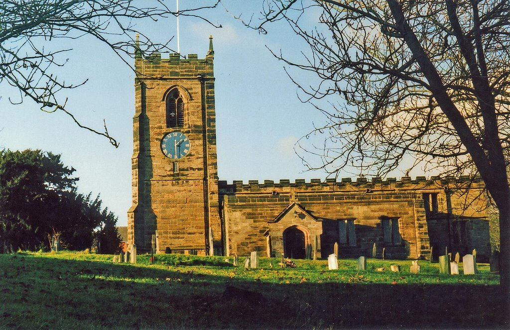 Church of St James, Annwell Lane, Smisby, Derbyshire